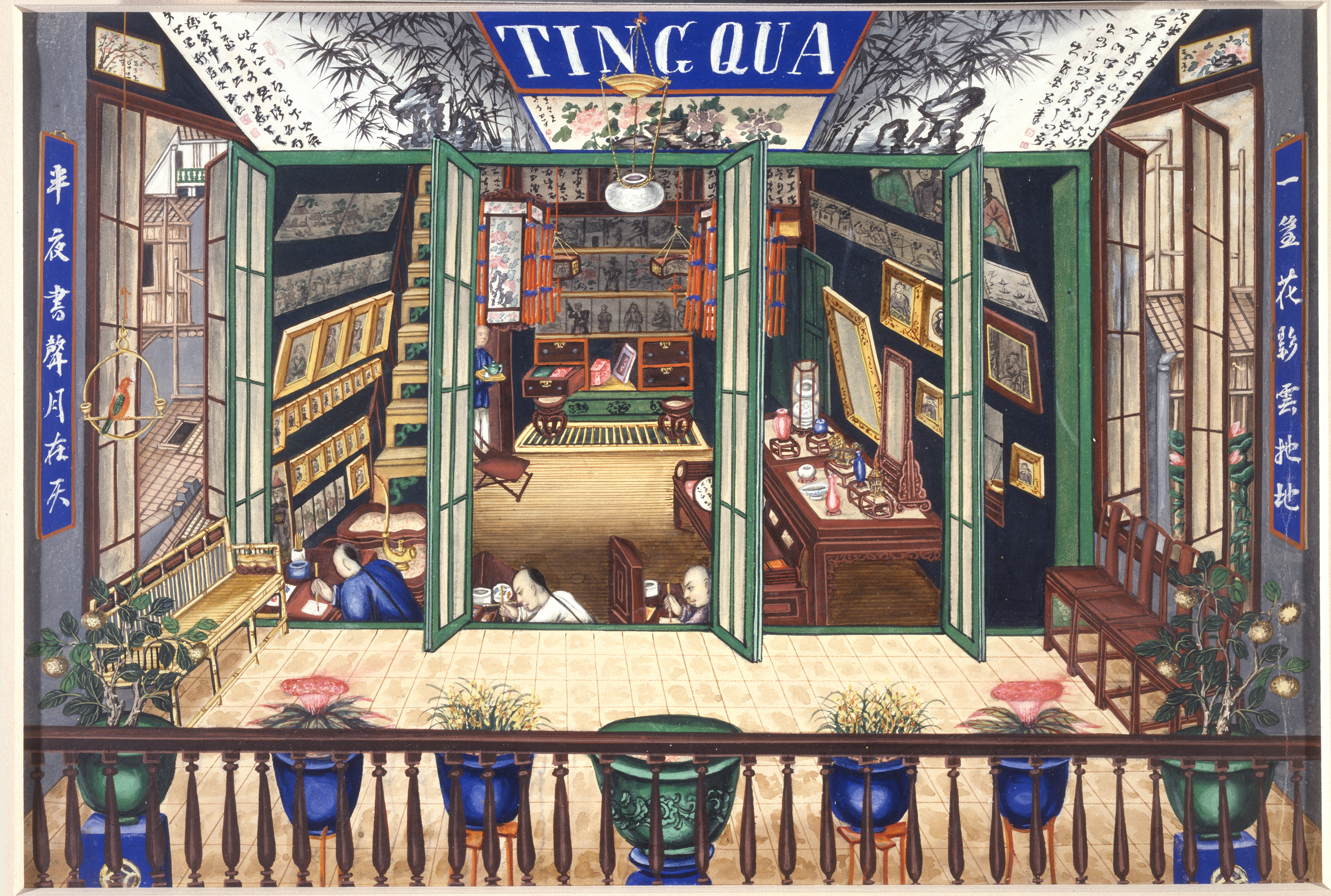 Tingqua (Guan Lianchang, born about 1809), Guangzhou (Canton), Guangdong province, China Shop of Tingqua, the painter Qing dynasty, Daoguang period, about 1855 Gouache on paper Gift of Leo A. and Doris C. Hodroff, 1998.